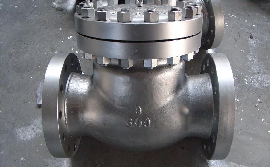 Titanium valve. Check valve. Valves and are generally made of plastic or steel, the latter being the most widely used in chemical and petrochemical applications. Steel grades range from the most common type, namely carbon steel, with standard stainless steel being the second most common. Stainless steel alloys, which include nickel or copper are used in applications that require higher corrosion or heat resistance. In such cases, the most commonly used valve configurations -- ball valves, gate valves, check valves, globe valves and butterfly valves -- are often forged or cast as duplex valves, super duplex valves, alloy 20 valves, monel valves, inconel valves, incoloy valves and 254 SMO valves (6Mo valves). Titanium valves are also used in some highly corrosive applications. Titanium is not a stainless steel alloy.